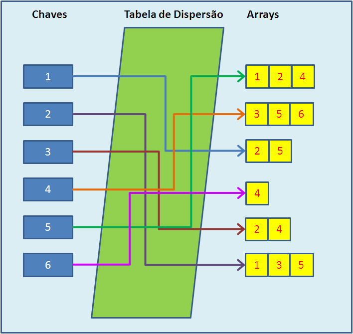 Adjacency list in Rossum´s style